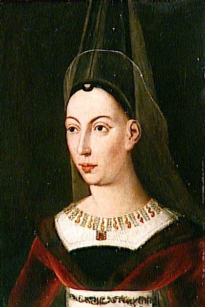 Portrait of Isabella of Bourbon (1436-1465), second wife of Charles the Bold, duke of Burgundy